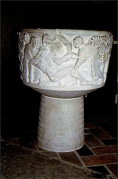 Birkerød Kirke (church)